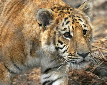 This is a Ti-liger a hybrid between a male tiger and a Ligress